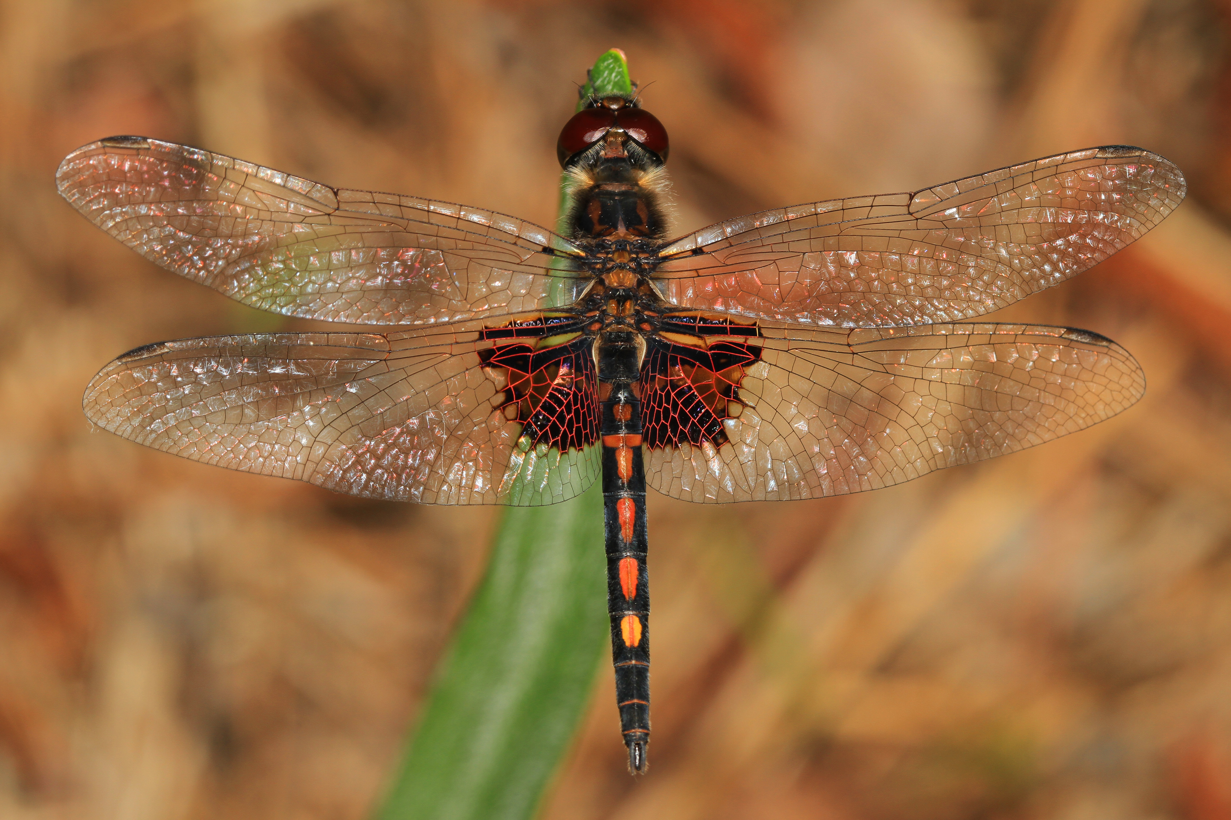 Ornate Pennant - Celithemis ornata, Watson Preserve, Kountze, Texas